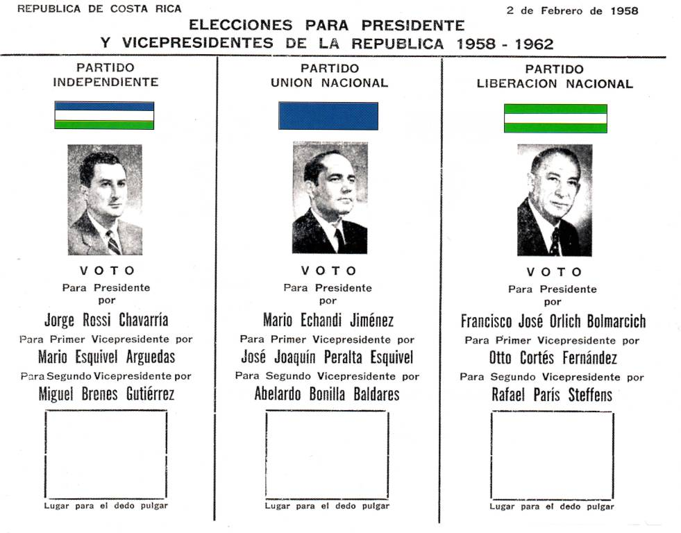 Papeleta presidencial de 1958